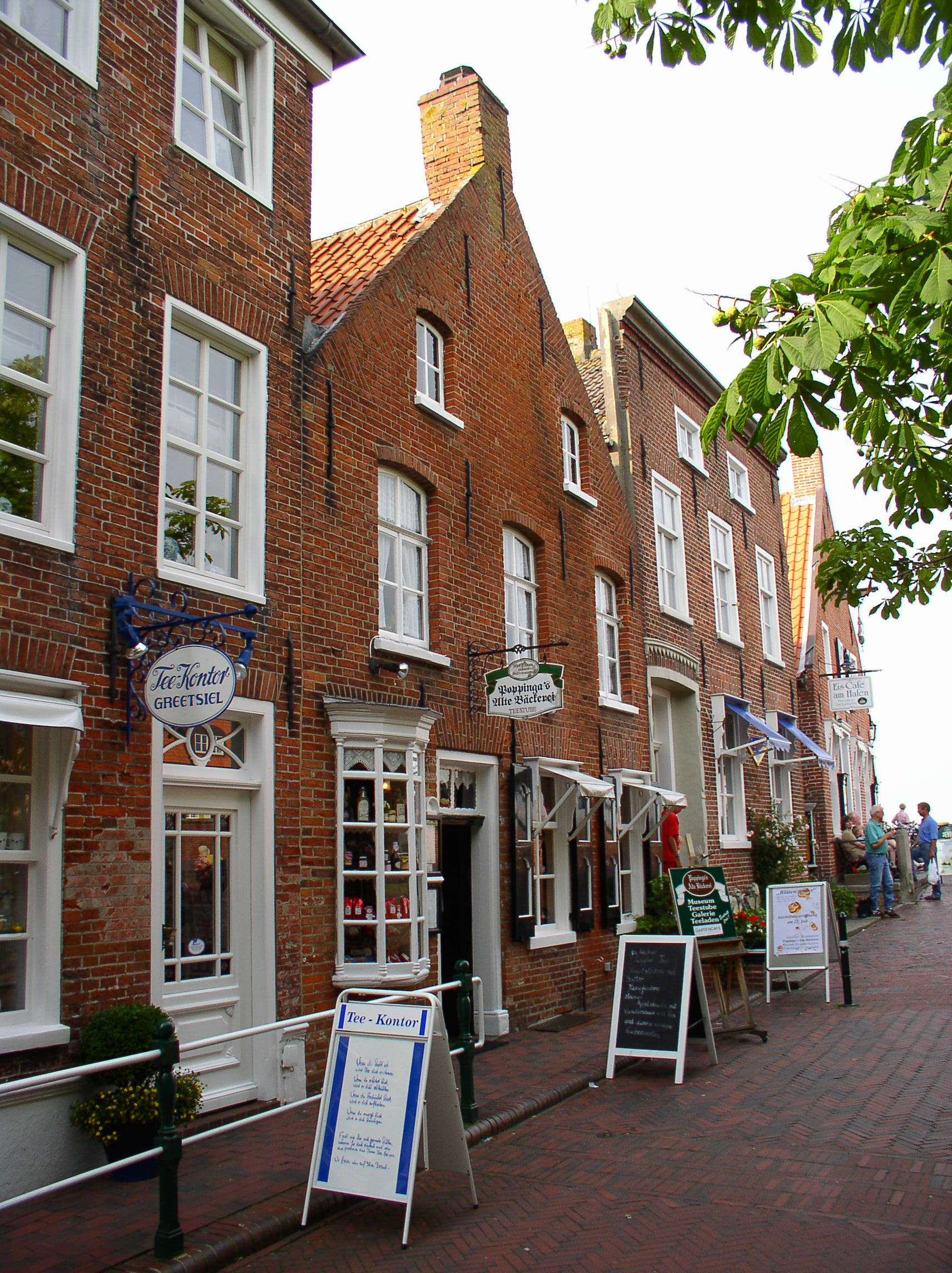 Fishermen's cottages by Greetsiel Harbour, Lower Saxony, Germany